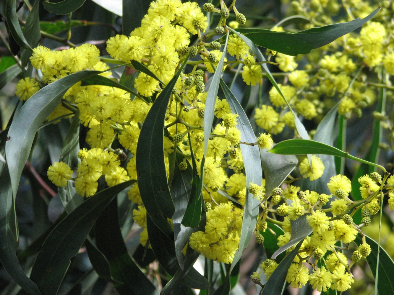 Acacia pycnantha (Golden Wattle), Burnley Gardens, Victoria, Australia.